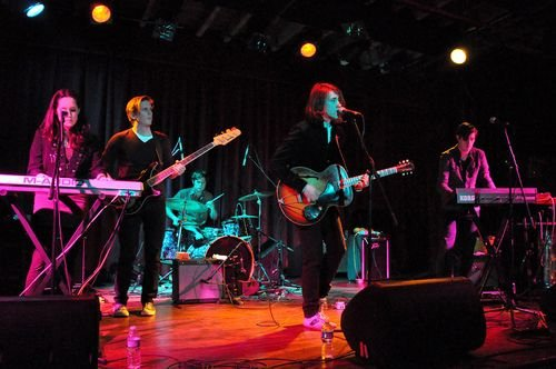 A photo of Ravens & Chimes performing at The Bell House in Brooklyn, New York